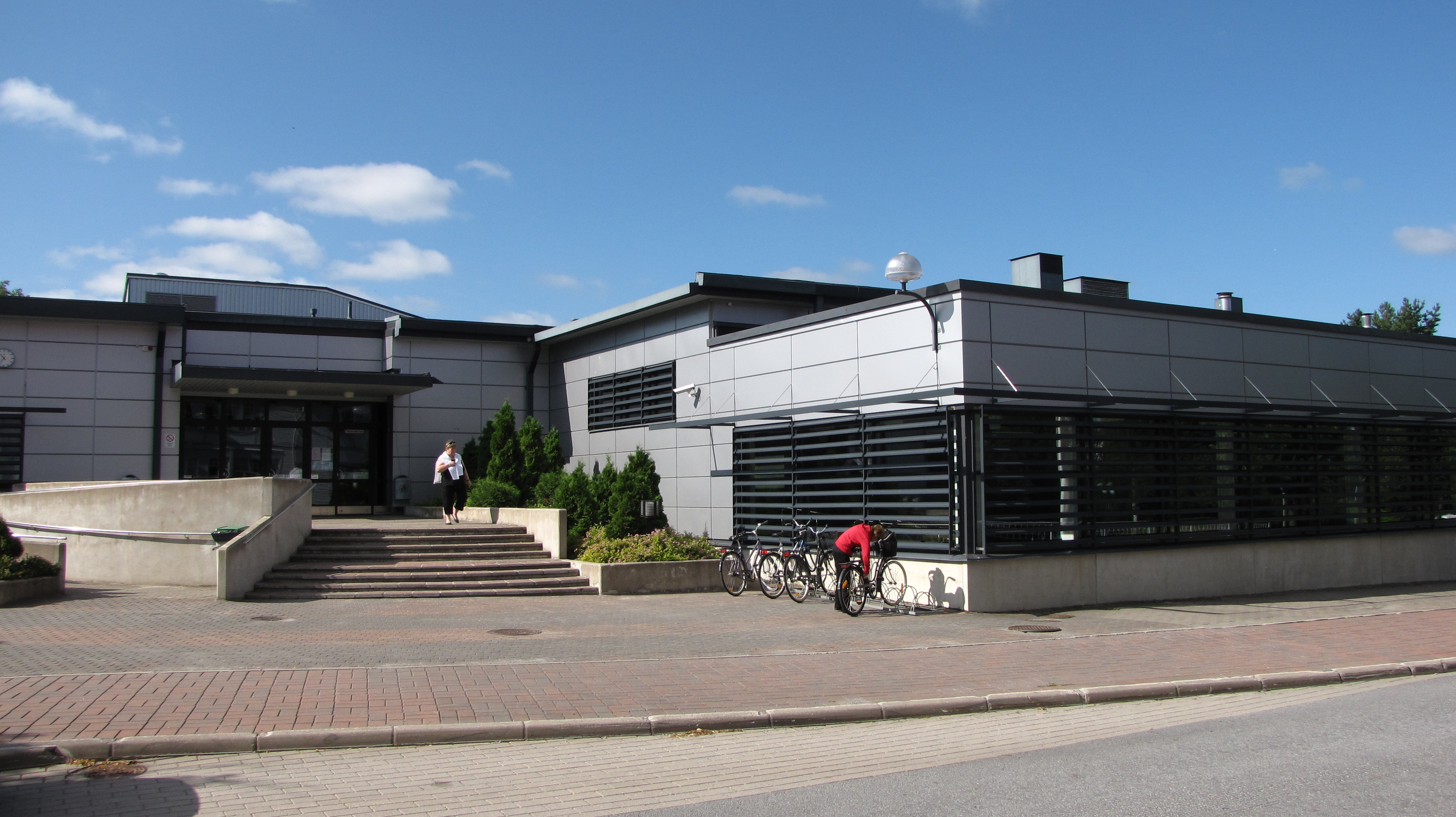 Virkku Recreational Swimming and Sports Hall in Kauhajoki, Finland.